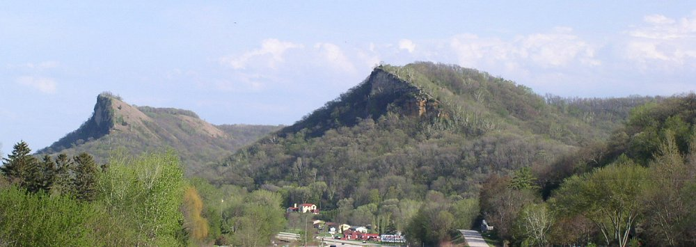 King's Bluff and Queen's Bluff in Great River Bluffs State Park, MN, USA